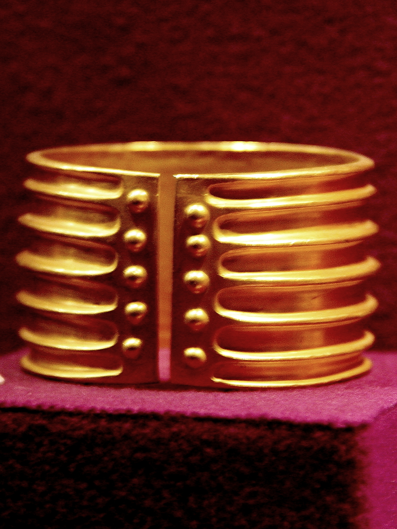 Dacian gold bracelet in display at the National Museum of Romanian History 2011